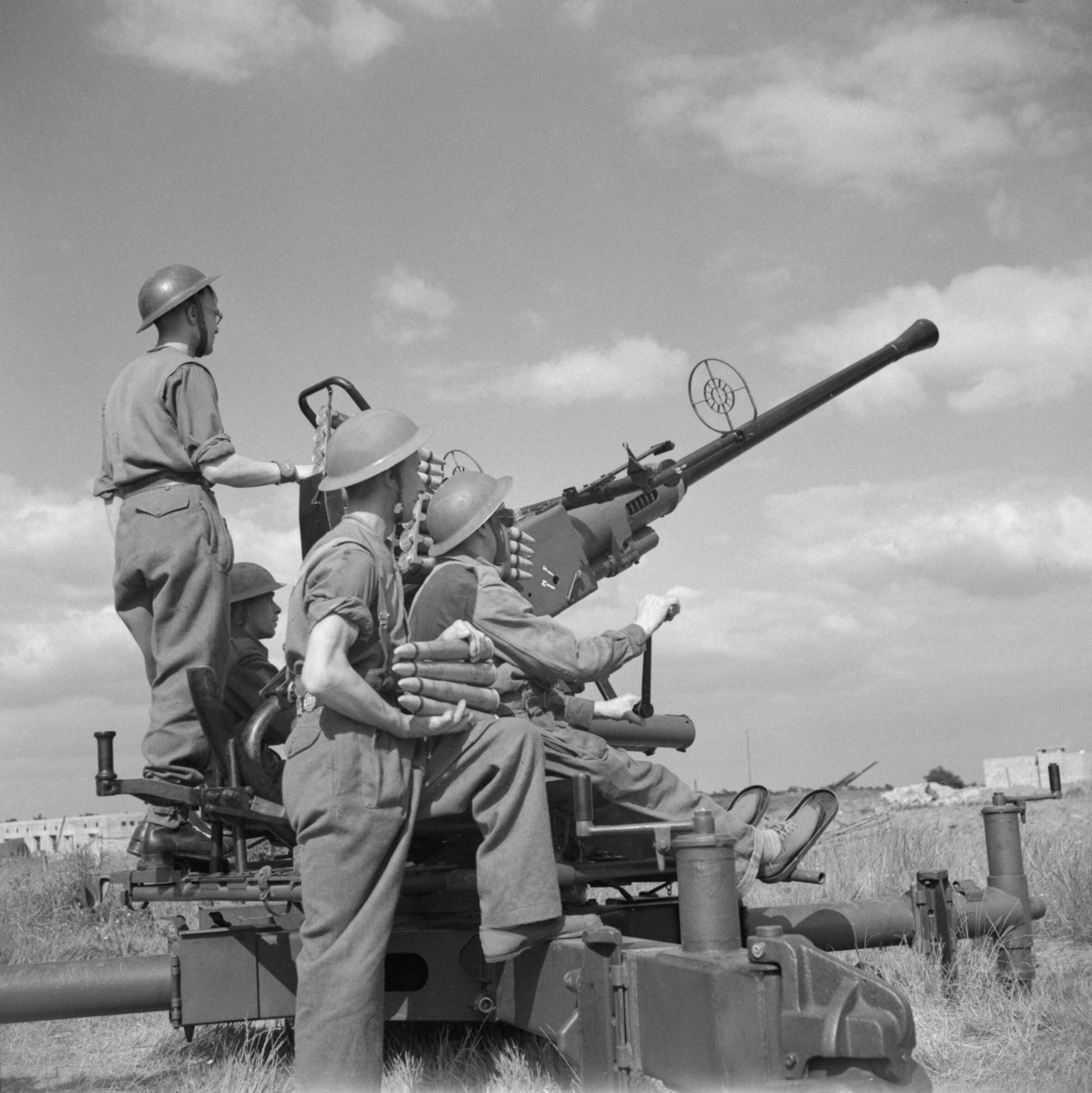 The British Army in the United Kingdom 1939-45 The crew of a Bofors anti-aircraft gun keep watch for V1 flying bombs, 19 June 1944.